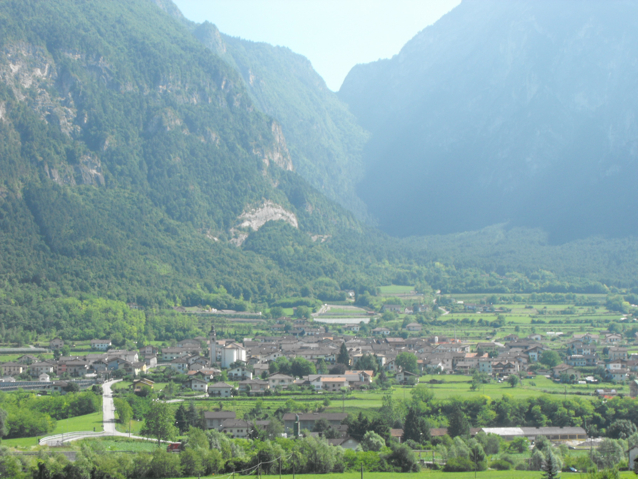 View of Ospedaletto, Trentino, Italy